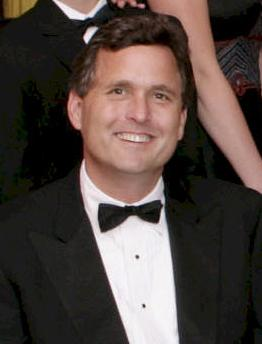 Marvin P. Bush at a Bush family dinner